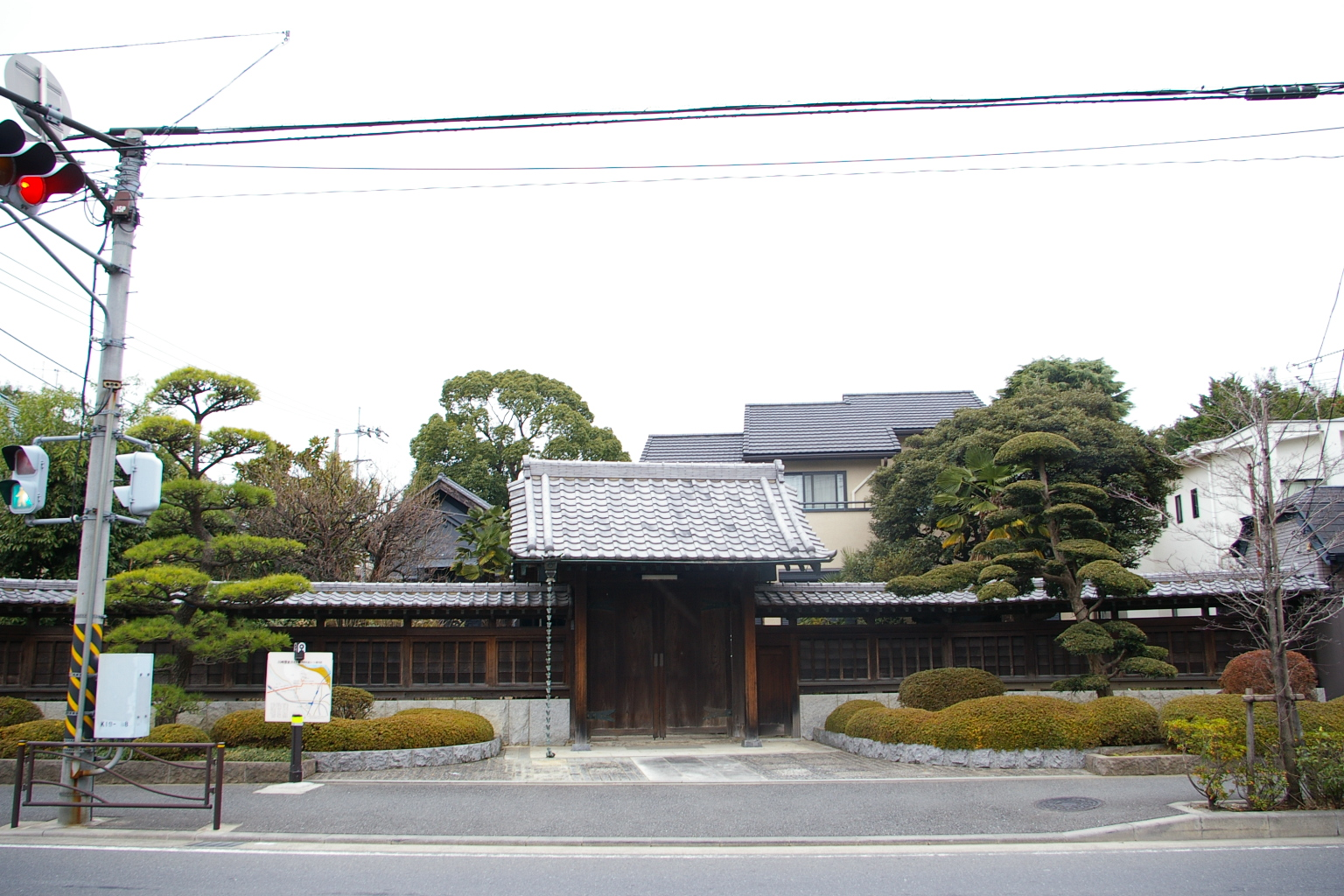 Nagaya-mon Gate in Japan